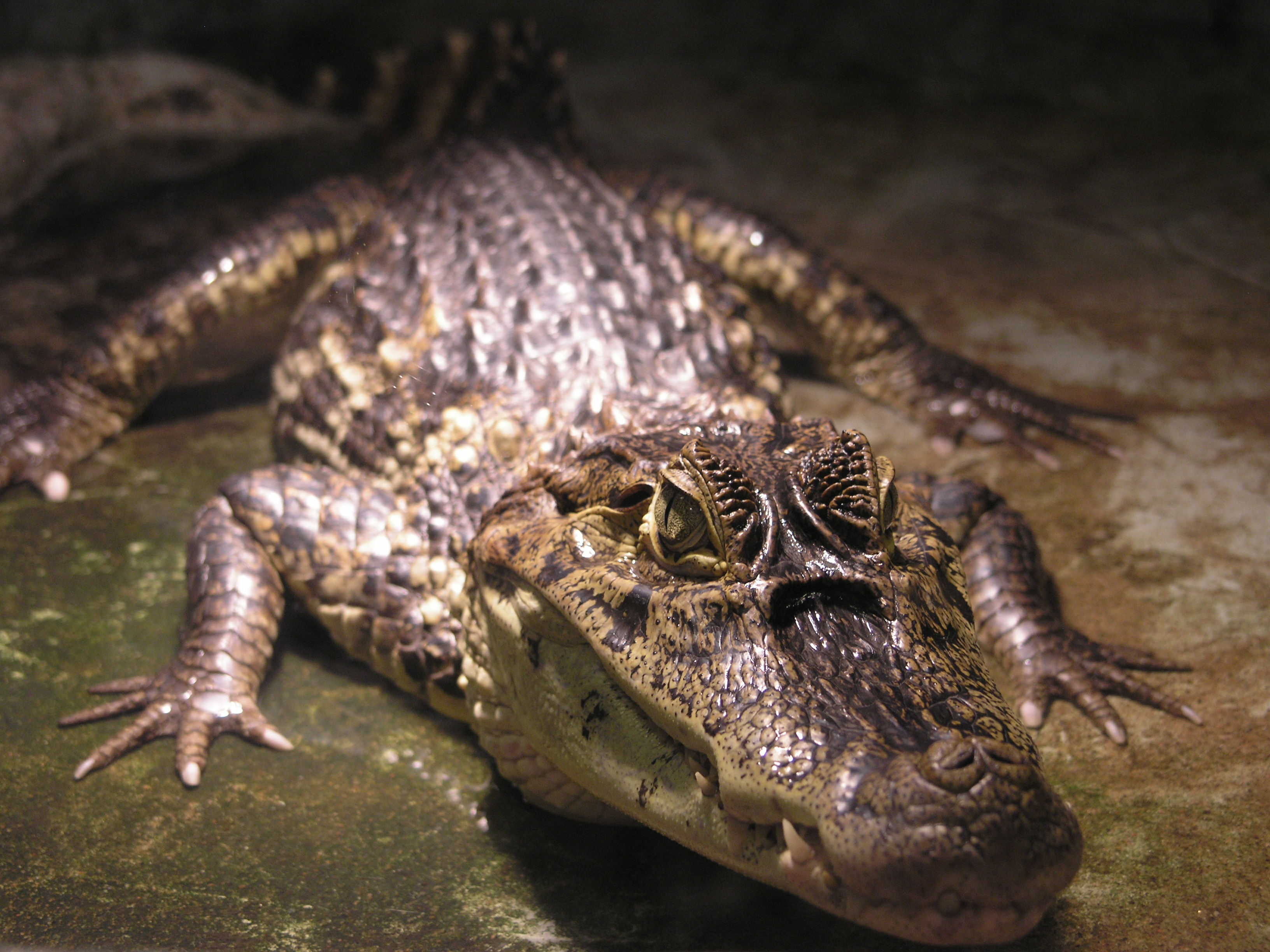 Small alligator (not identified)